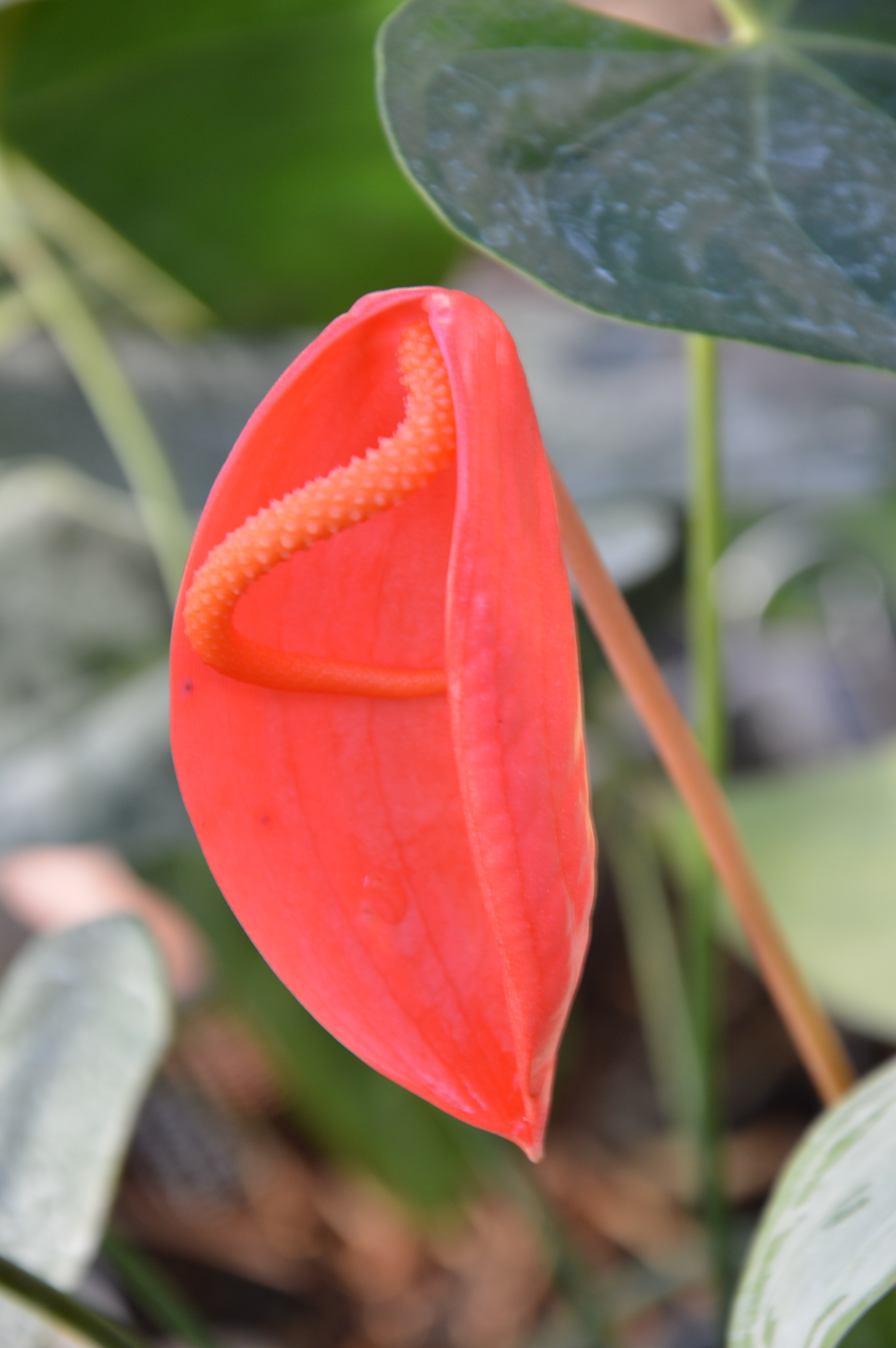 Anthurium-scherzerianum at Füvészkert (Botanical Garden Budapest)